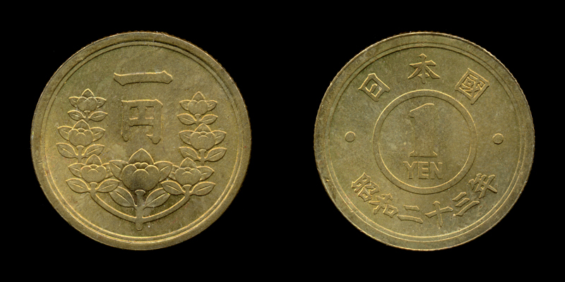 1yen-S23